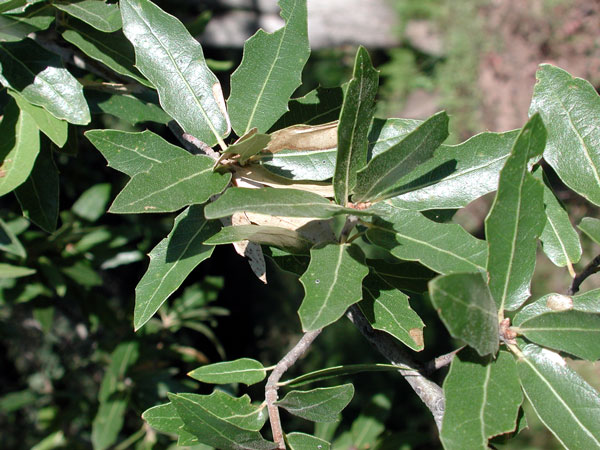 Emory Oak, Quercus emoryi, from Gila County, Arizona. Small to medium sized tree found commonly in Southwestern United States.